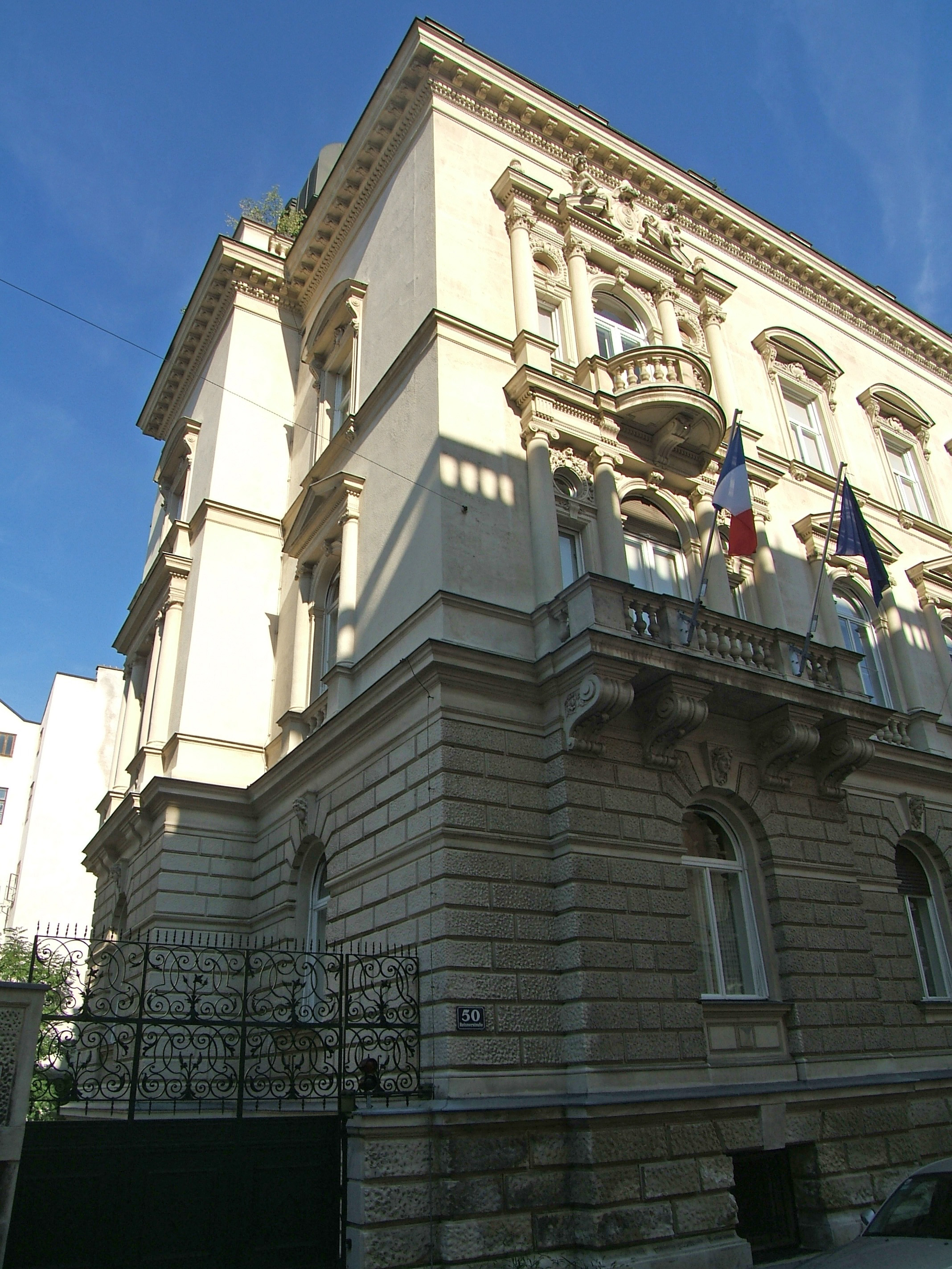 Palais Seybel in Vienna 3rd district, Reisnerstraße 50